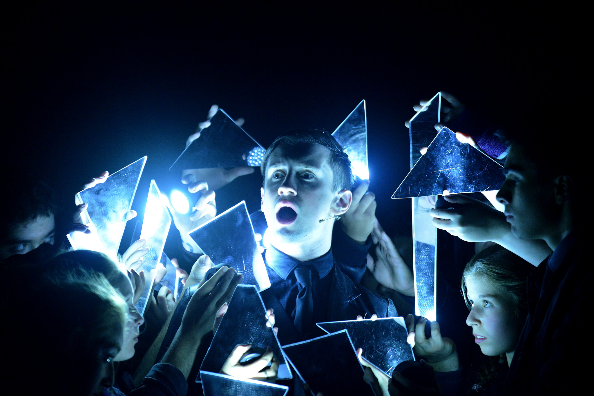 Macbeth by Youth Music Thetare UK at the Edinburgh Festival fringe